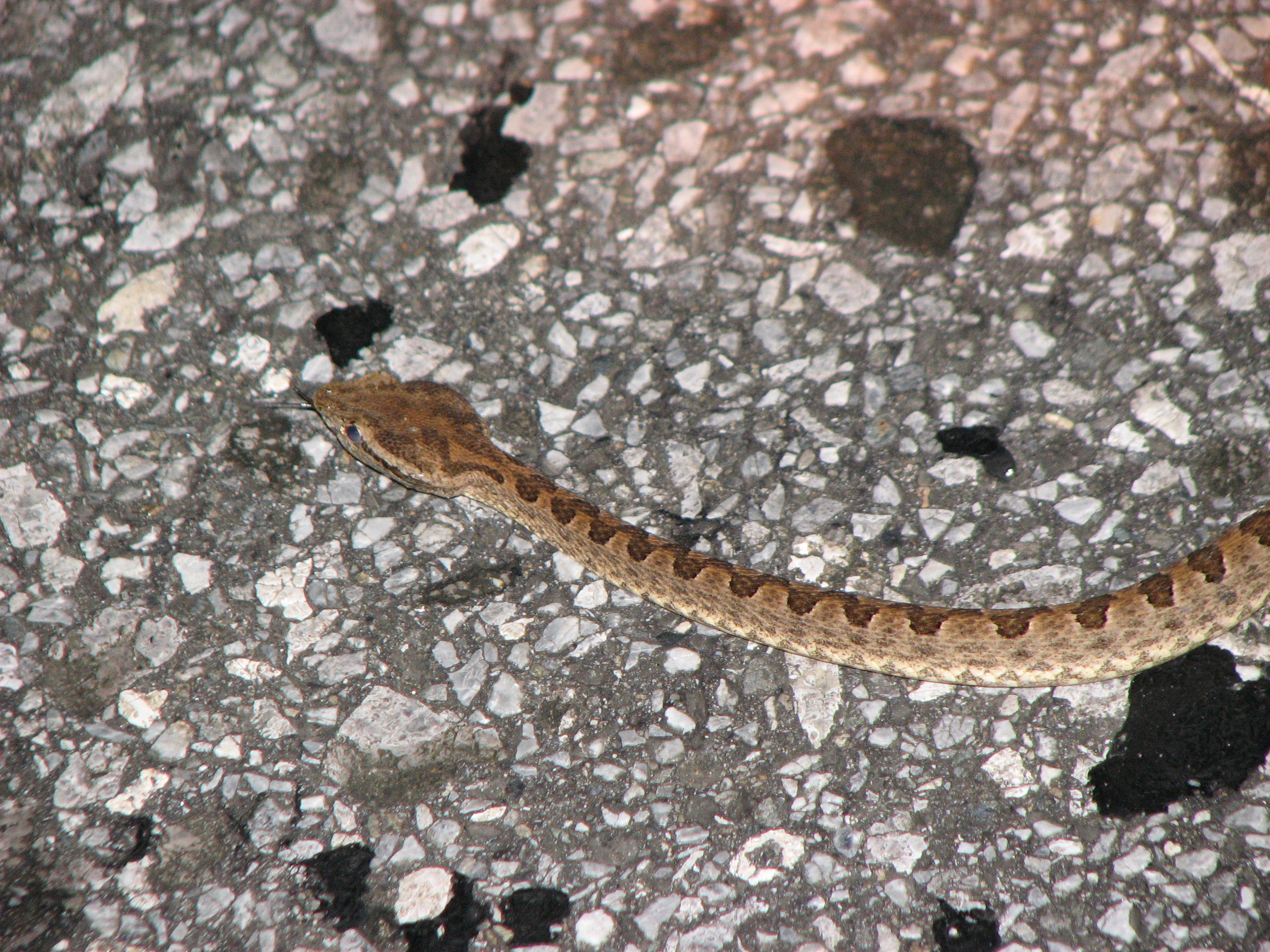 Protobothrops elegans at Iriomote is. Okinawa, Japan